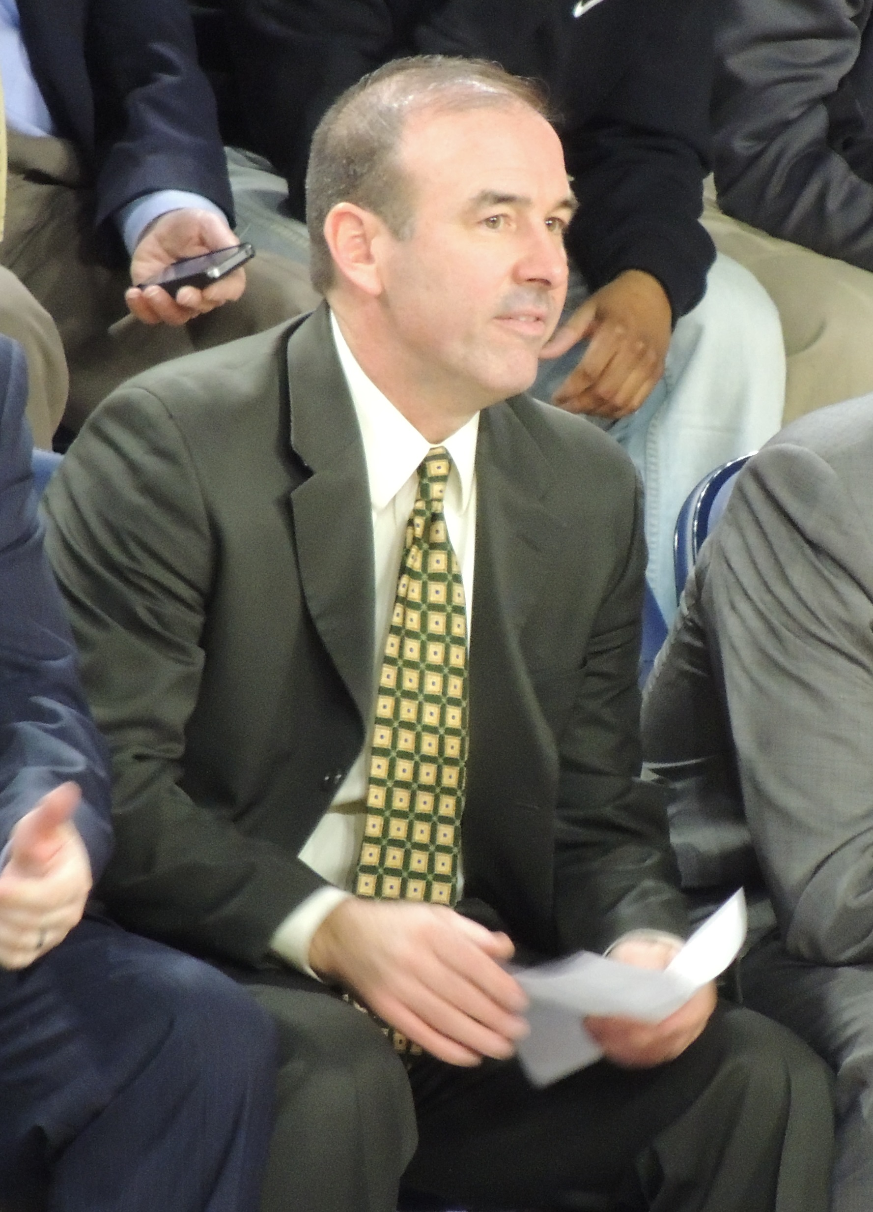 George Washington University coach Mike Lonergan at a game in February, 2015